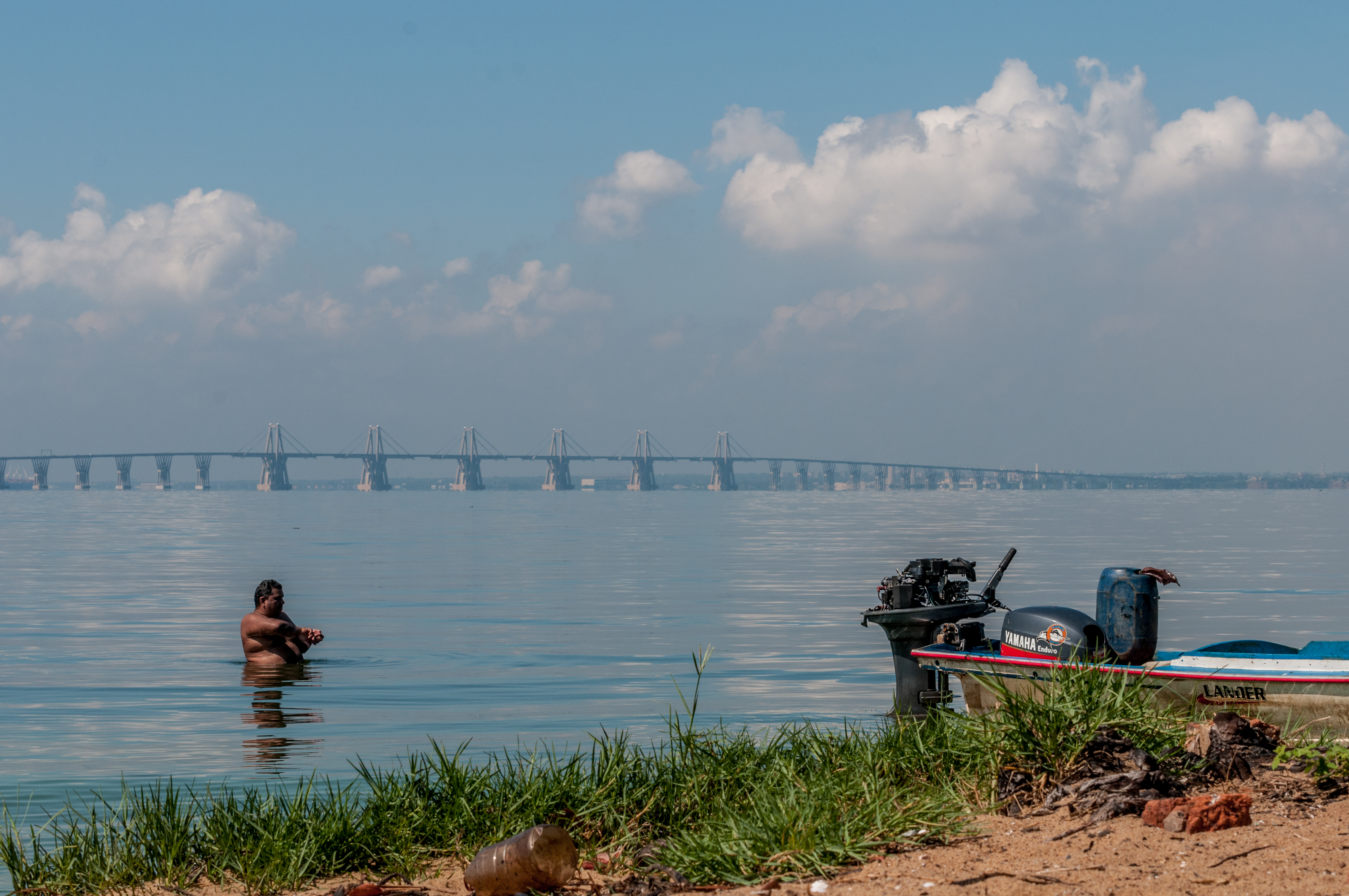 Fisherman taking a bath in the Maracaibo lake